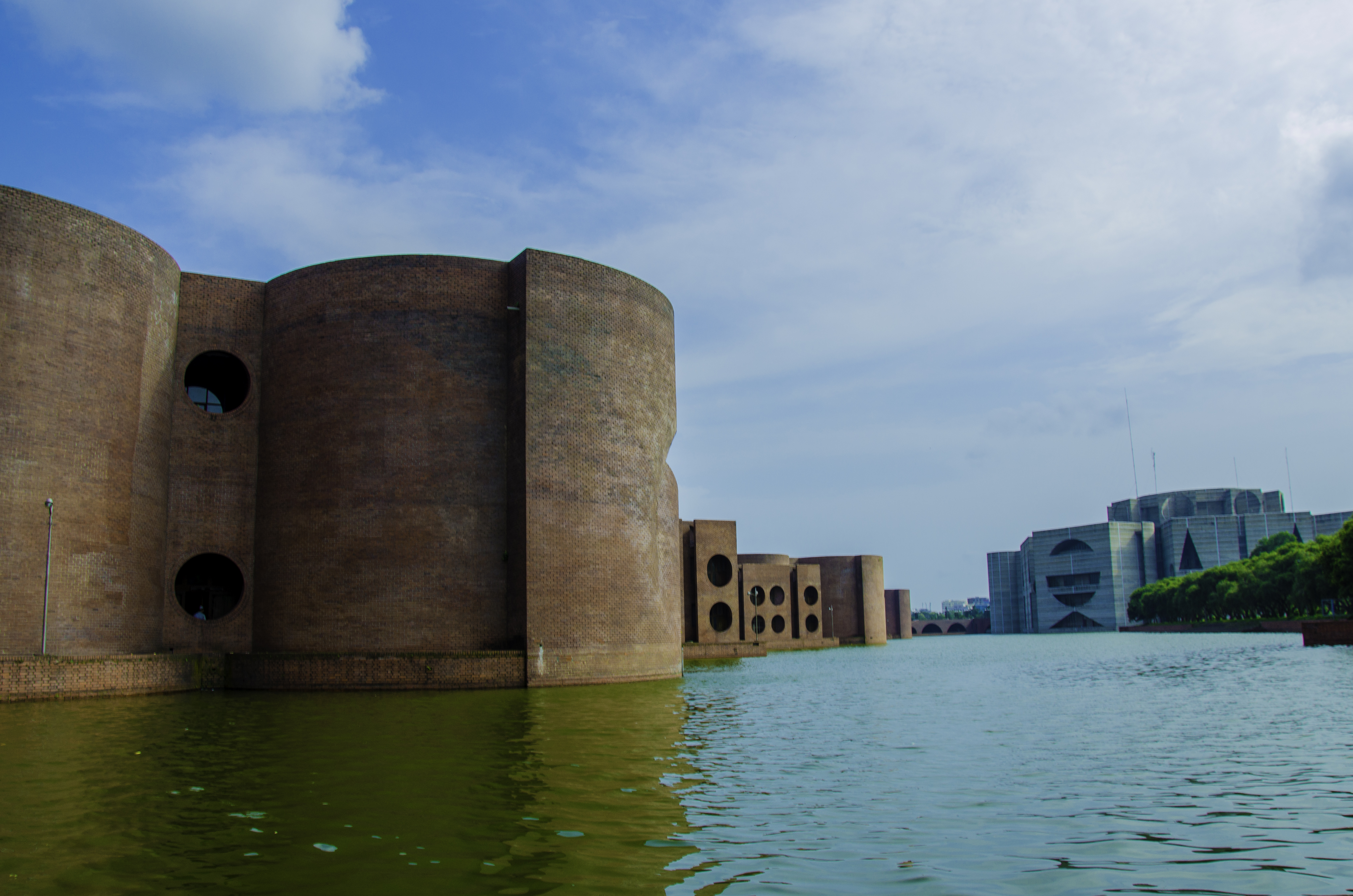 Jatiyo Sangsad Bhaban, Bangladesh.